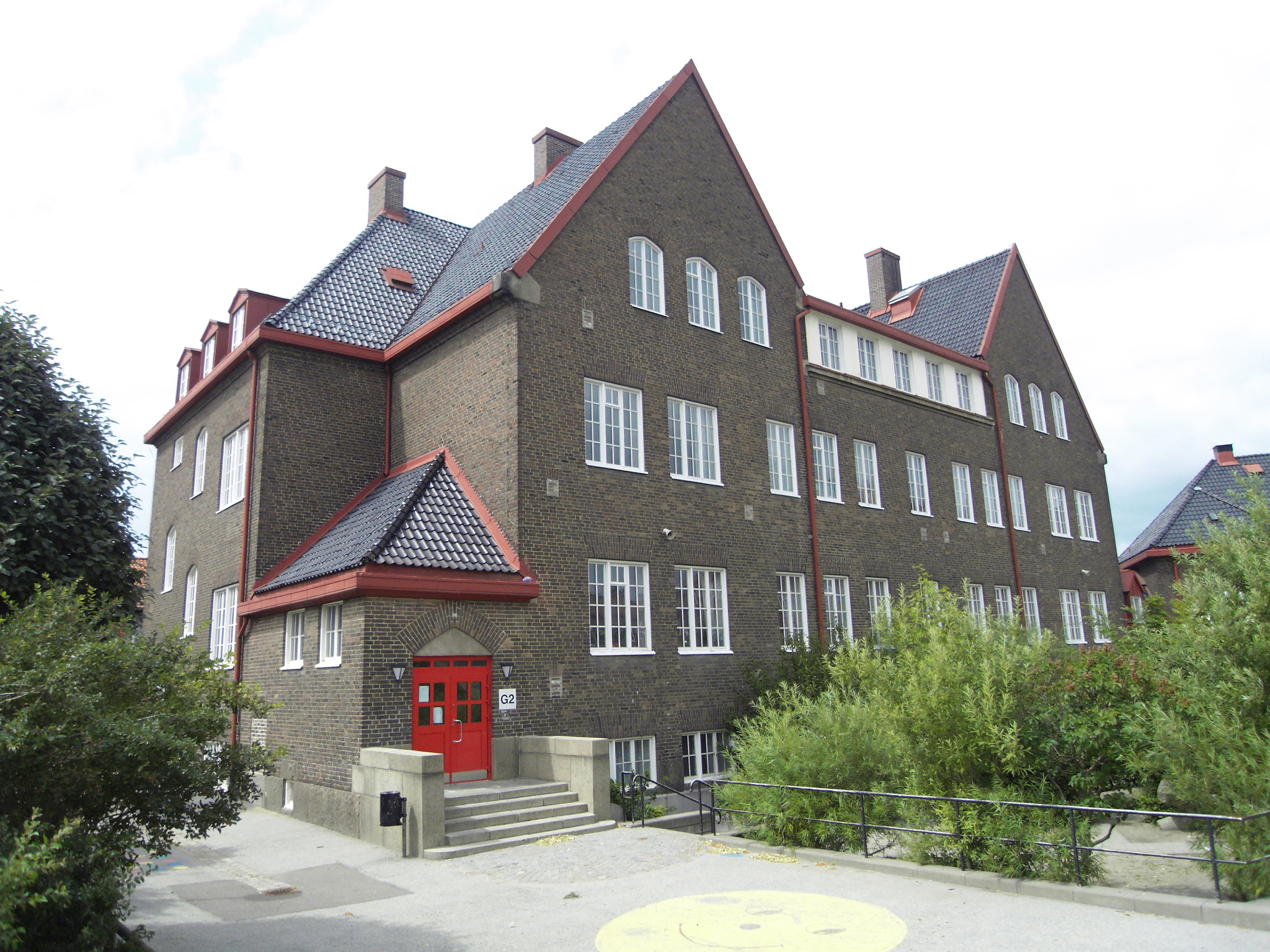 A building of the elementary school Kirsebergsskolan in the city of Malmo.